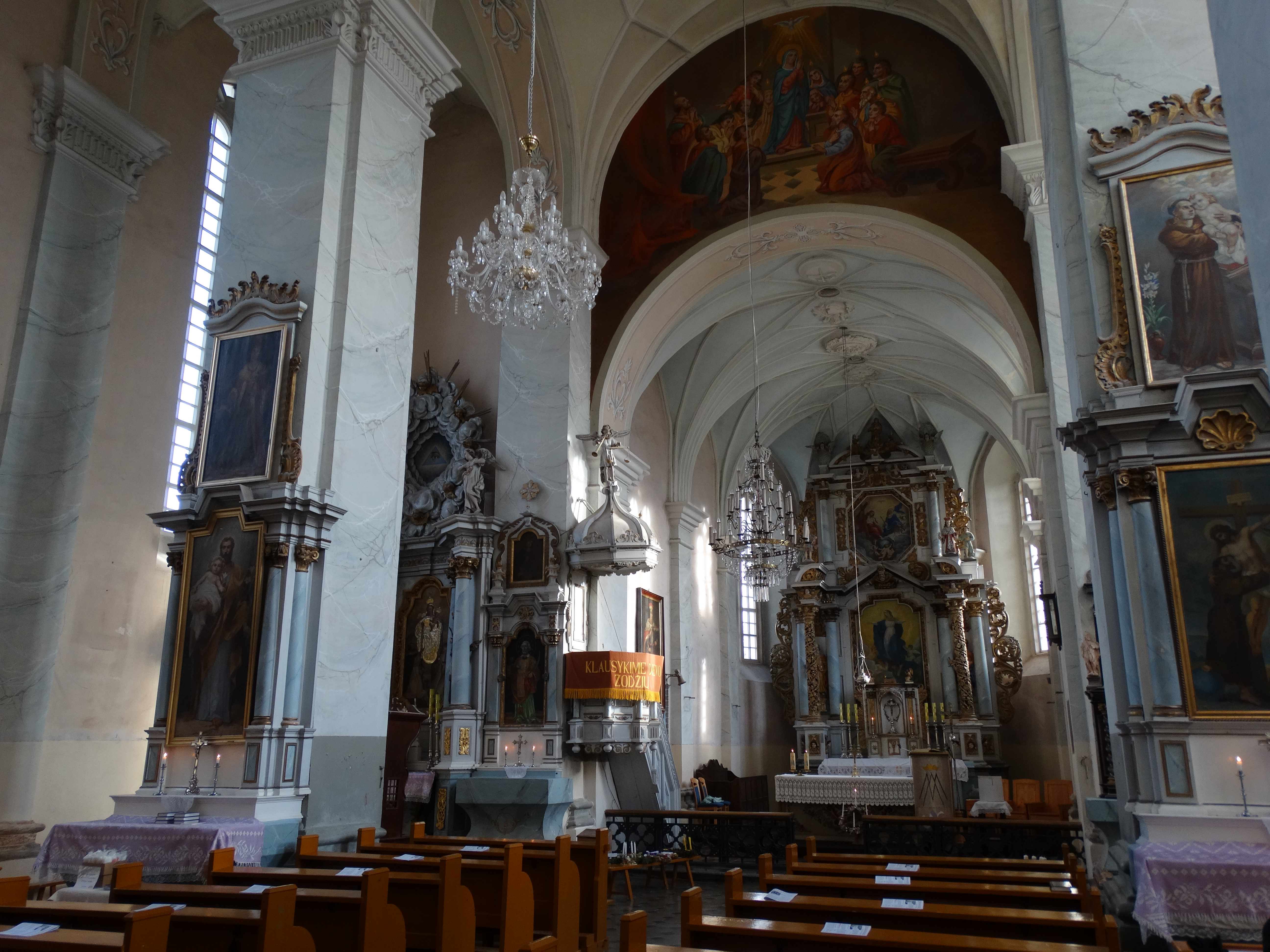 Church of the Assumption of The Holy Virgin Mary in Veliuona, Jurbarkas district, Lithuania